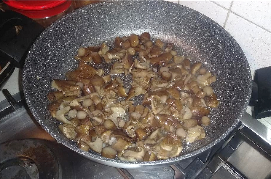 Armillaria mellea: frypan cooking